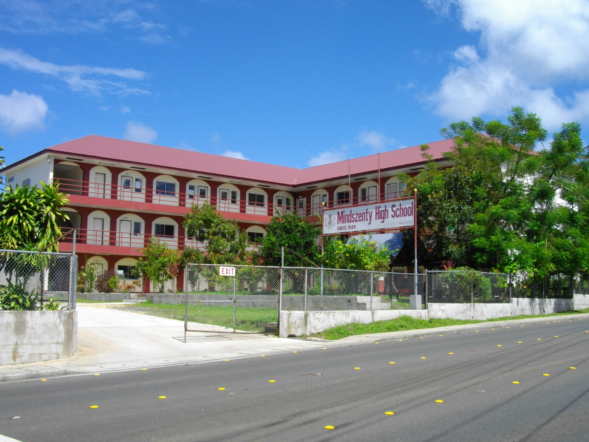 Palau Mindszenty High School